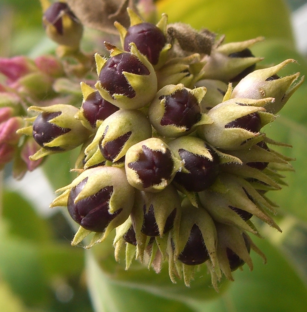 Please report references to .